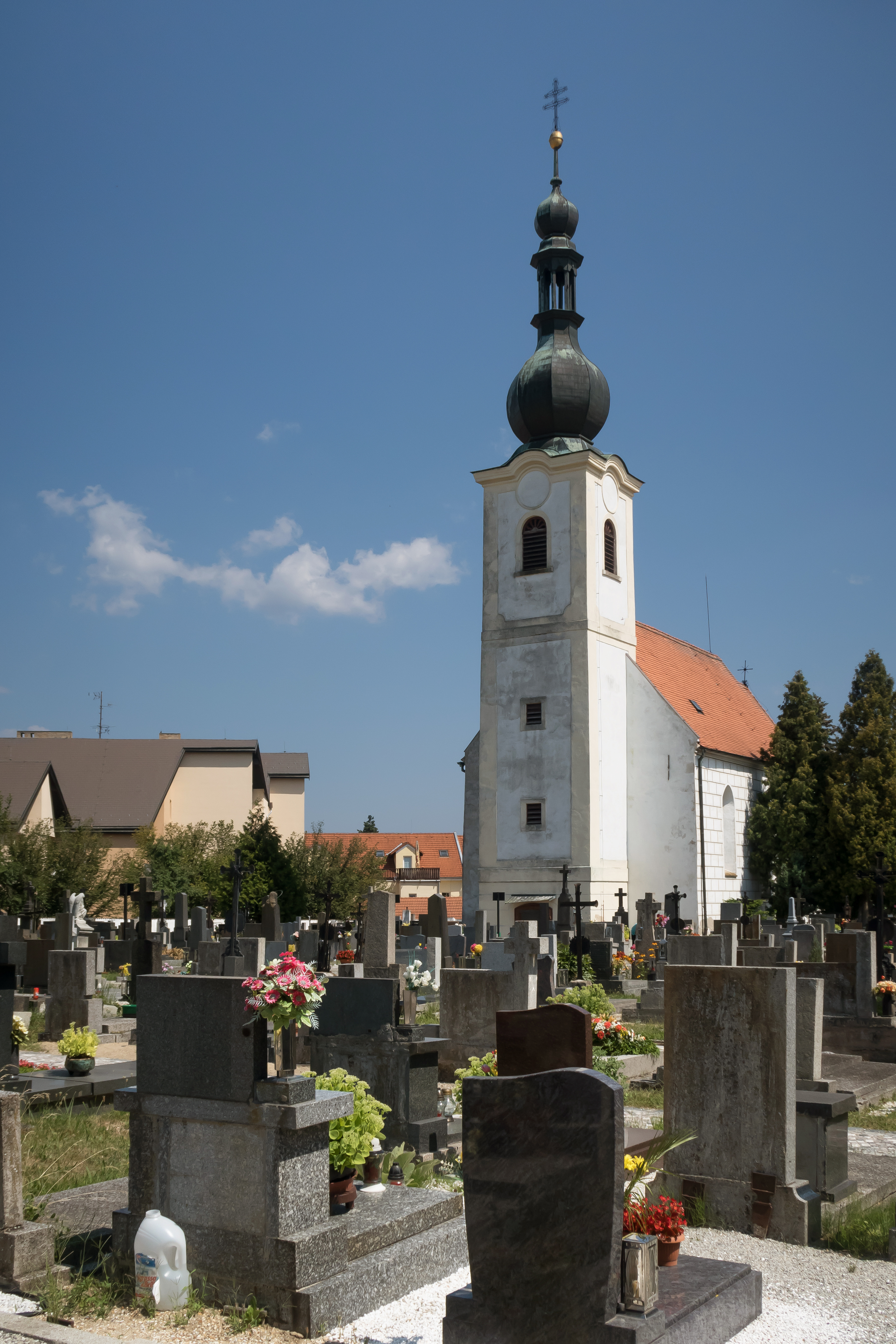 Třeboň, church: kostel svaté Alžběty